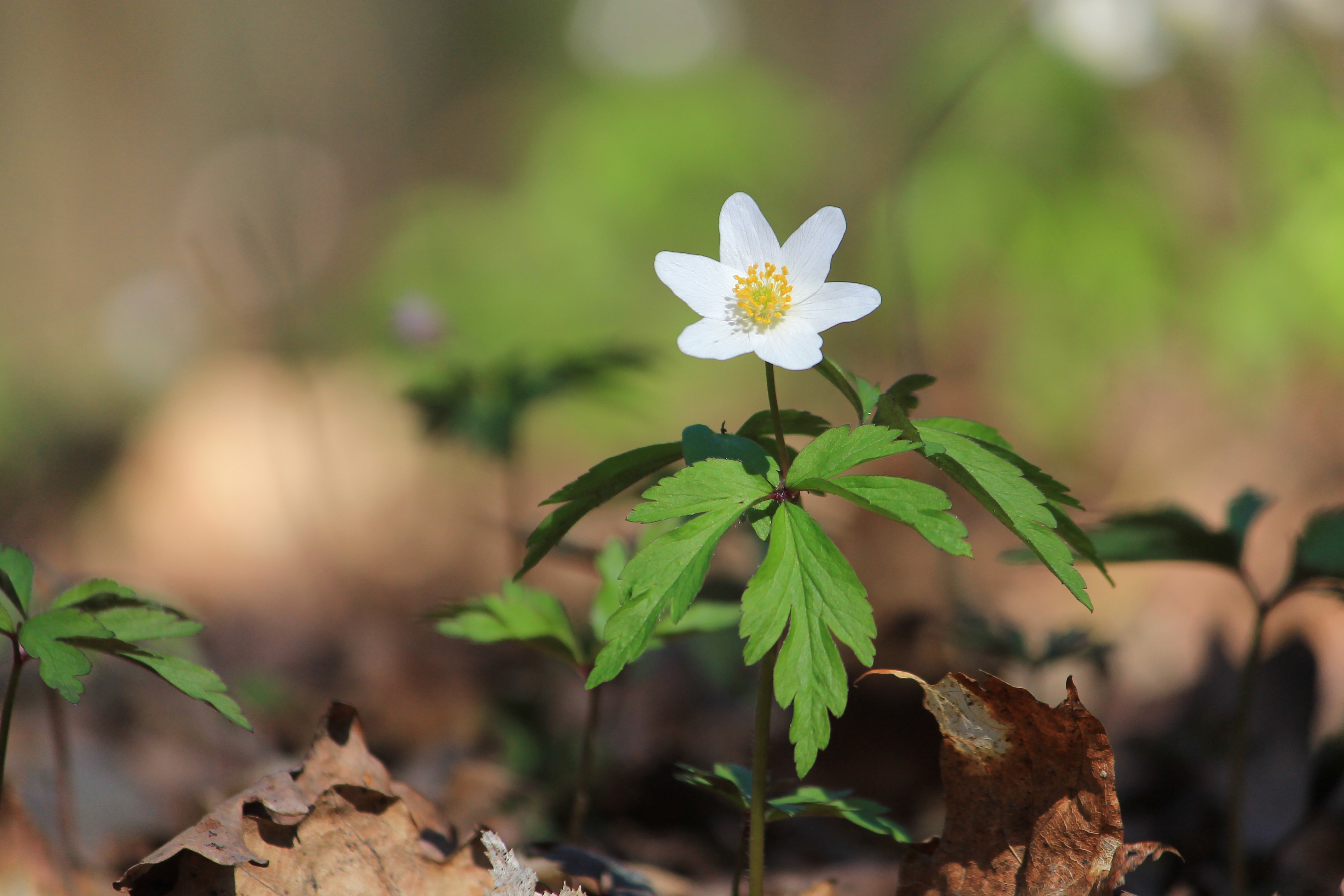 The wood anemone was found near the little river in the deciduous forest, Ukraine.